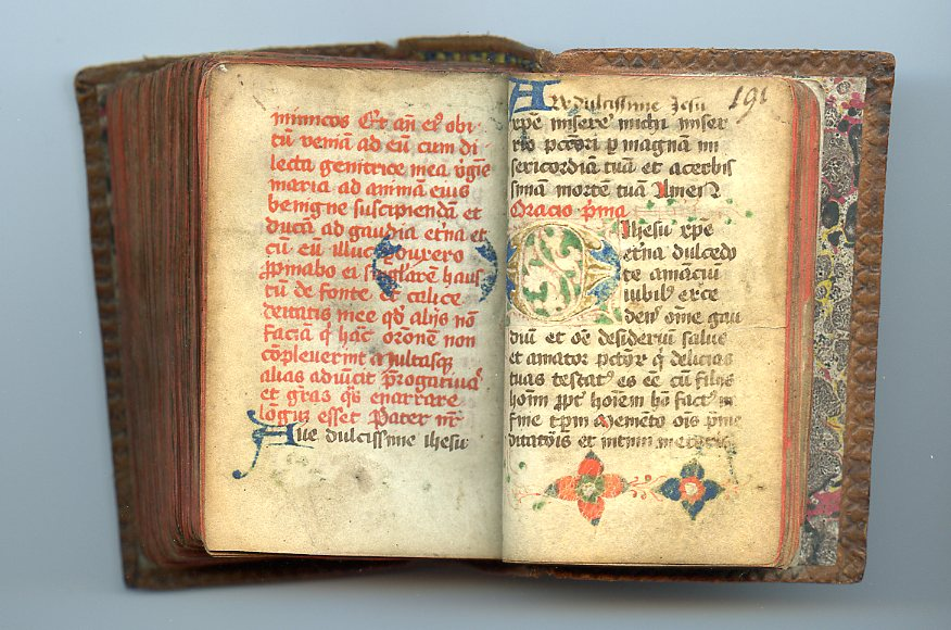 Miniature Prayer Book In Latin, illuminated manuscript on parchment